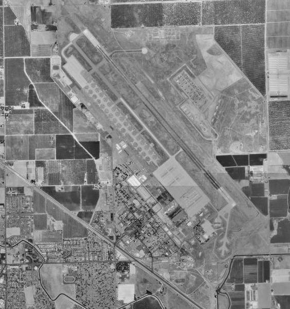 USGS digital orthophoto of Castle Airport (formerly Castle Air Force Base) in Merced, California, United States